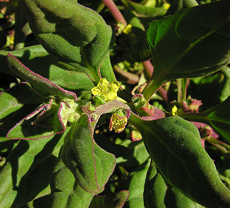 A species of the Chilean coast known as Escarcha, from the Iceplant Family.